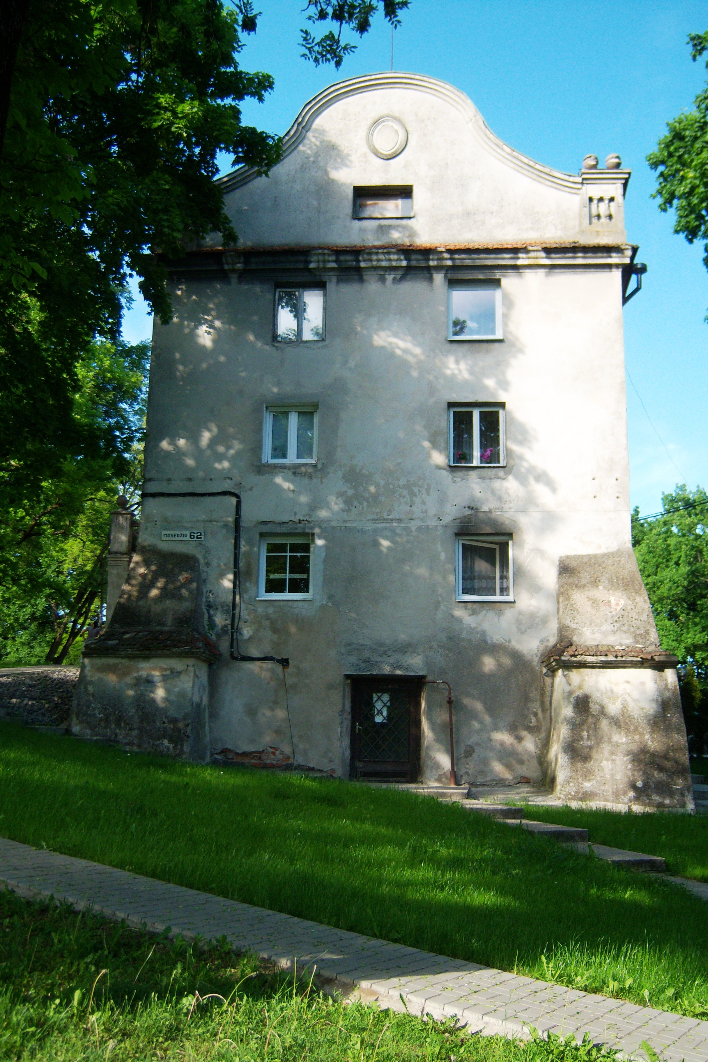 Former manor in Linkuva, Kaunas. Lithuania